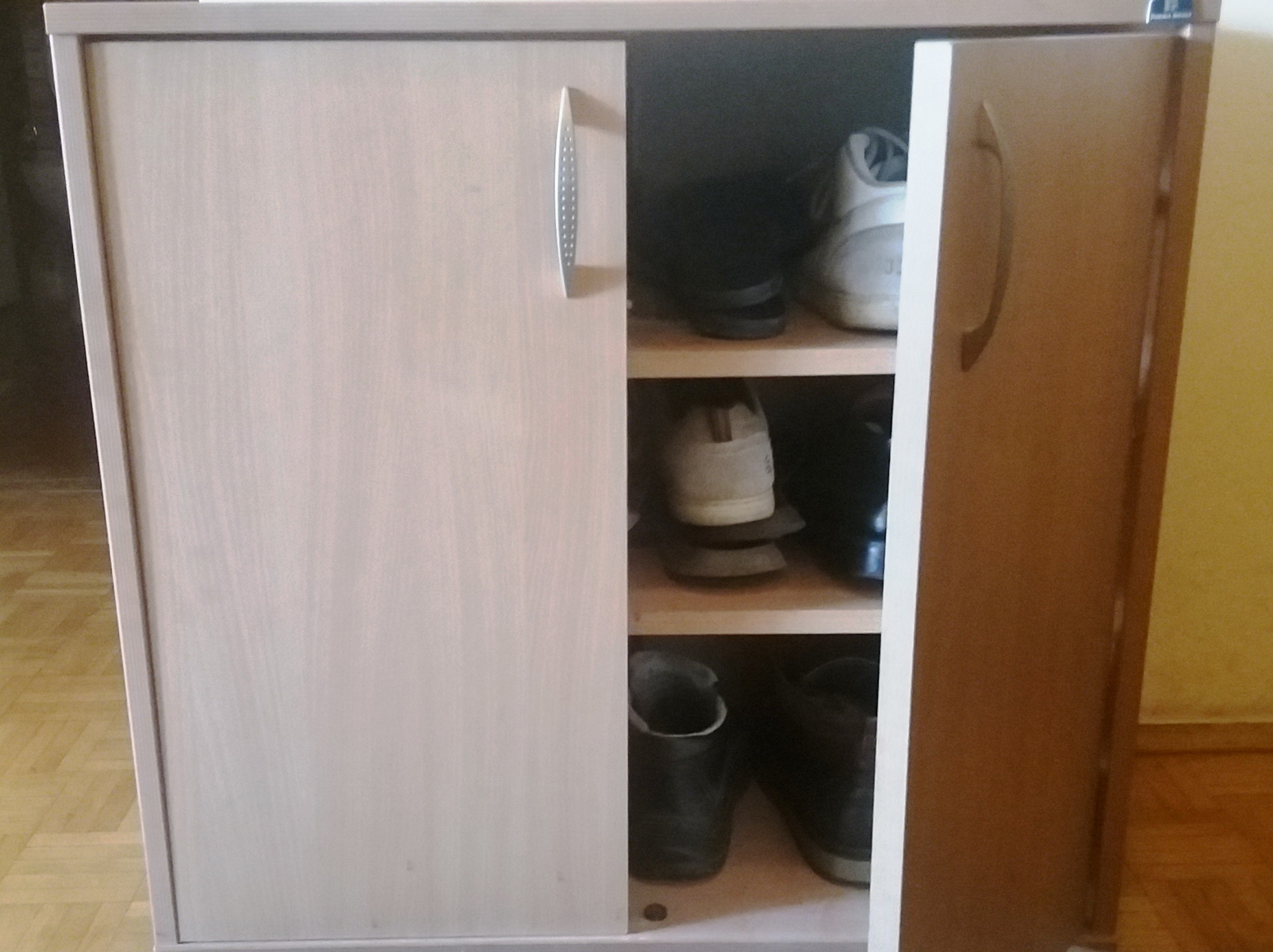 Shoe store